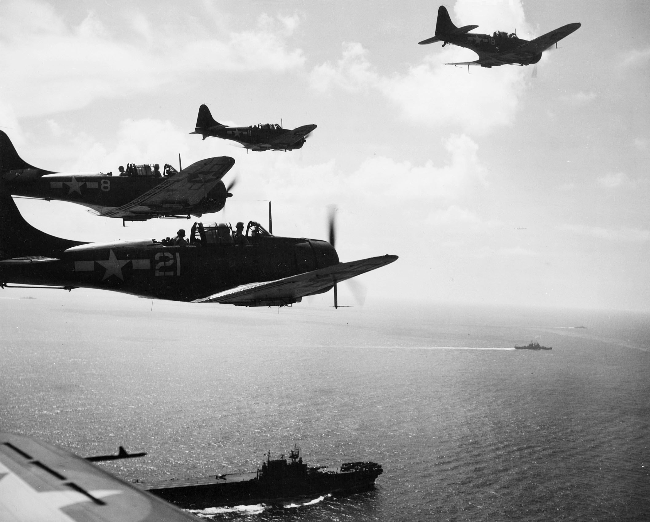 U.S. Navy Douglas SBD-5 Dauntless dive bombers of Bombing Squadron 10 (VB-10) pass over the aircraft carrier USS Enterprise (CV-6) prior to recovery aboard the carrier following strikes against Palau, 30 March 1944. One of the last two SBD squadrons to operate from U.S. fleet carriers during the Second World War, VB-10 flew from the deck of the "Big E" during the period January-July 1944, and participated in the Battle of the Philippine Sea on 19-20 June 1944.